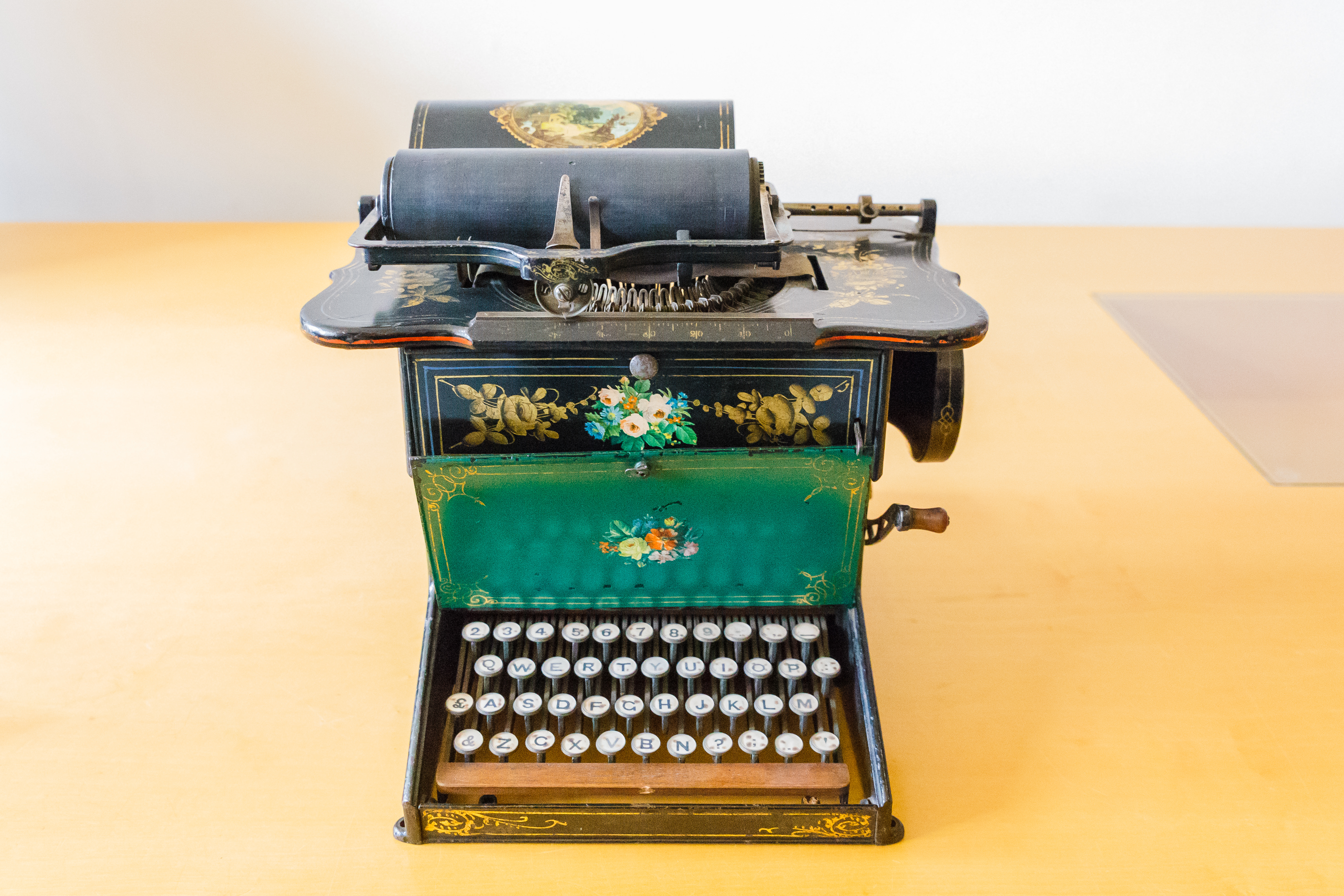 The Sholes and Glidden typewriter (also known as the Remington No. 1)